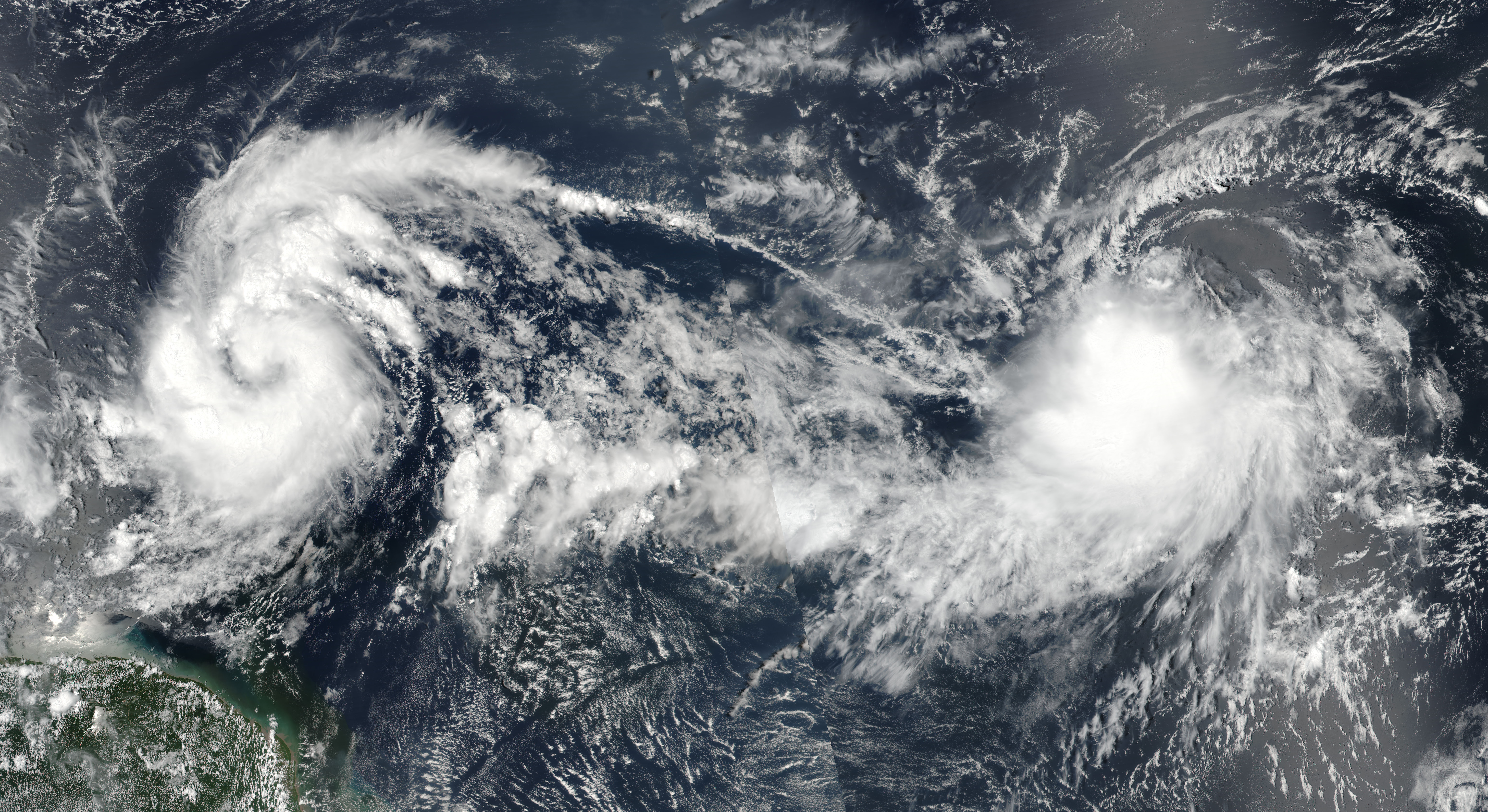 Tropical Storms Lee (14L) and Maria (15L) in the Atlantic Ocean